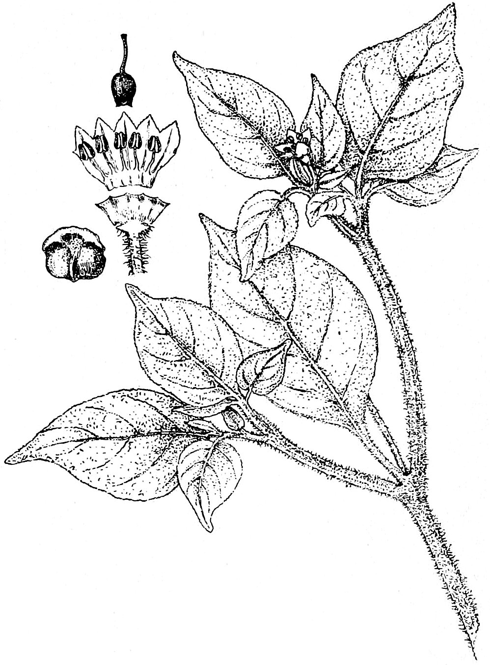 Capsicum galapagoense (syn. Brachistus pubescens)